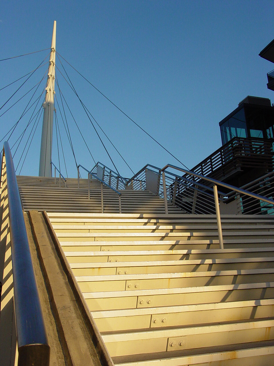 Denver Millennium Bridge Stairs and a glass elevator lead pedestrians to the west landing of Denver's Millennium Bridge. Photographer: Cher Skoubo